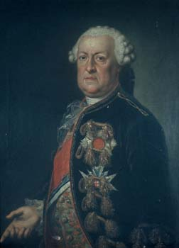 Portrait of Joseph Franz Maria von Seinsheim (1707-1787), former President of the Bavarian Academy of Science